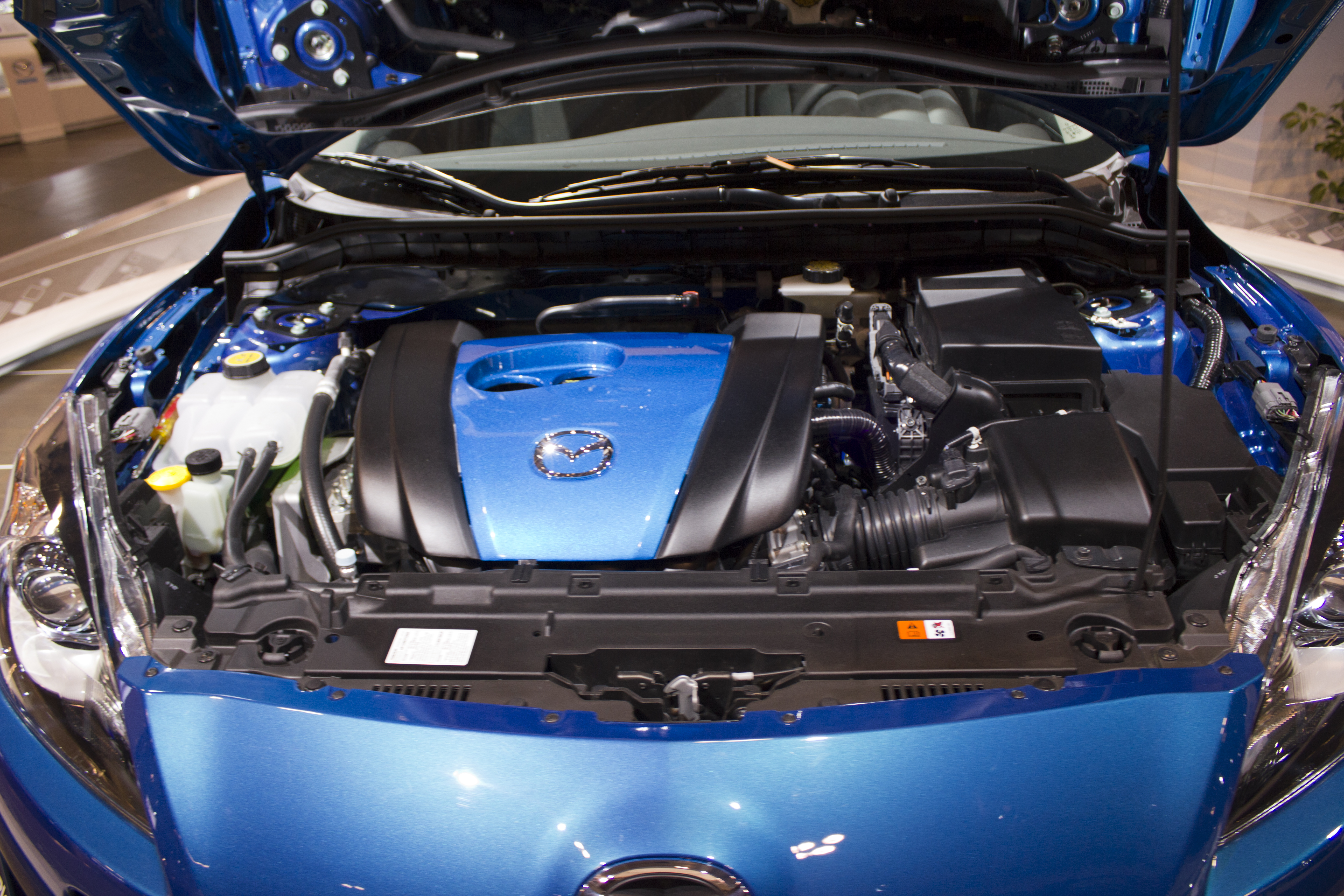 Taken at the 2011 Canadian International Auto Show